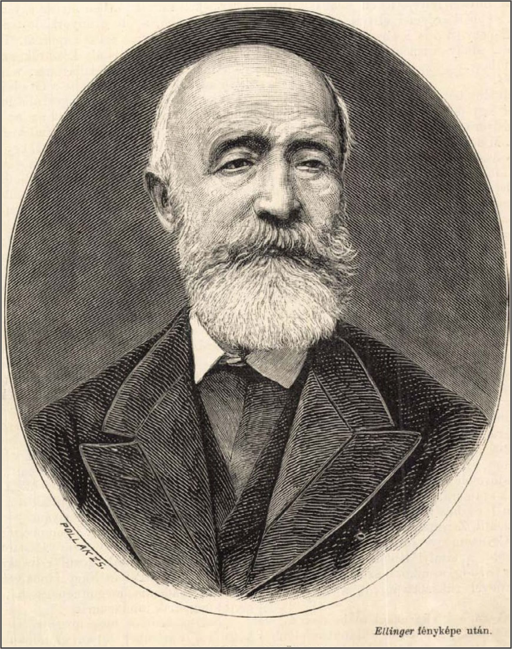 Portrait of György Zsivora